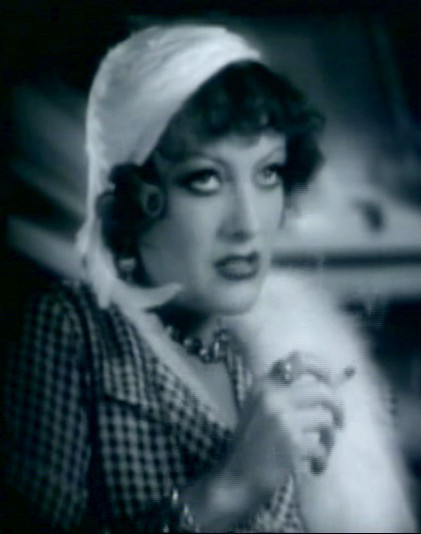 Cropped screenshot of Joan Crawford from the film Rain.